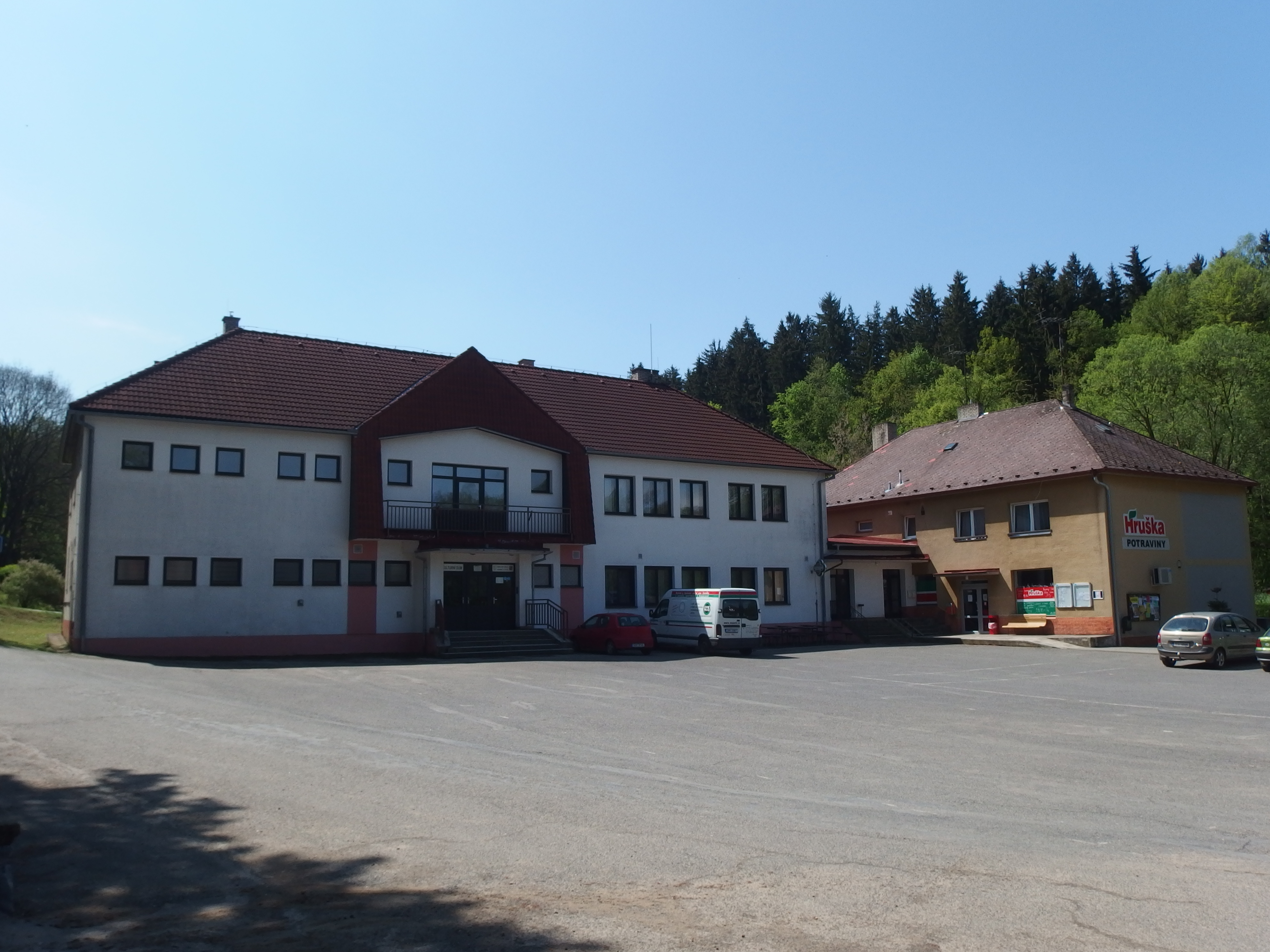 Horní Újezd, Svitavy District, Czech Republic.